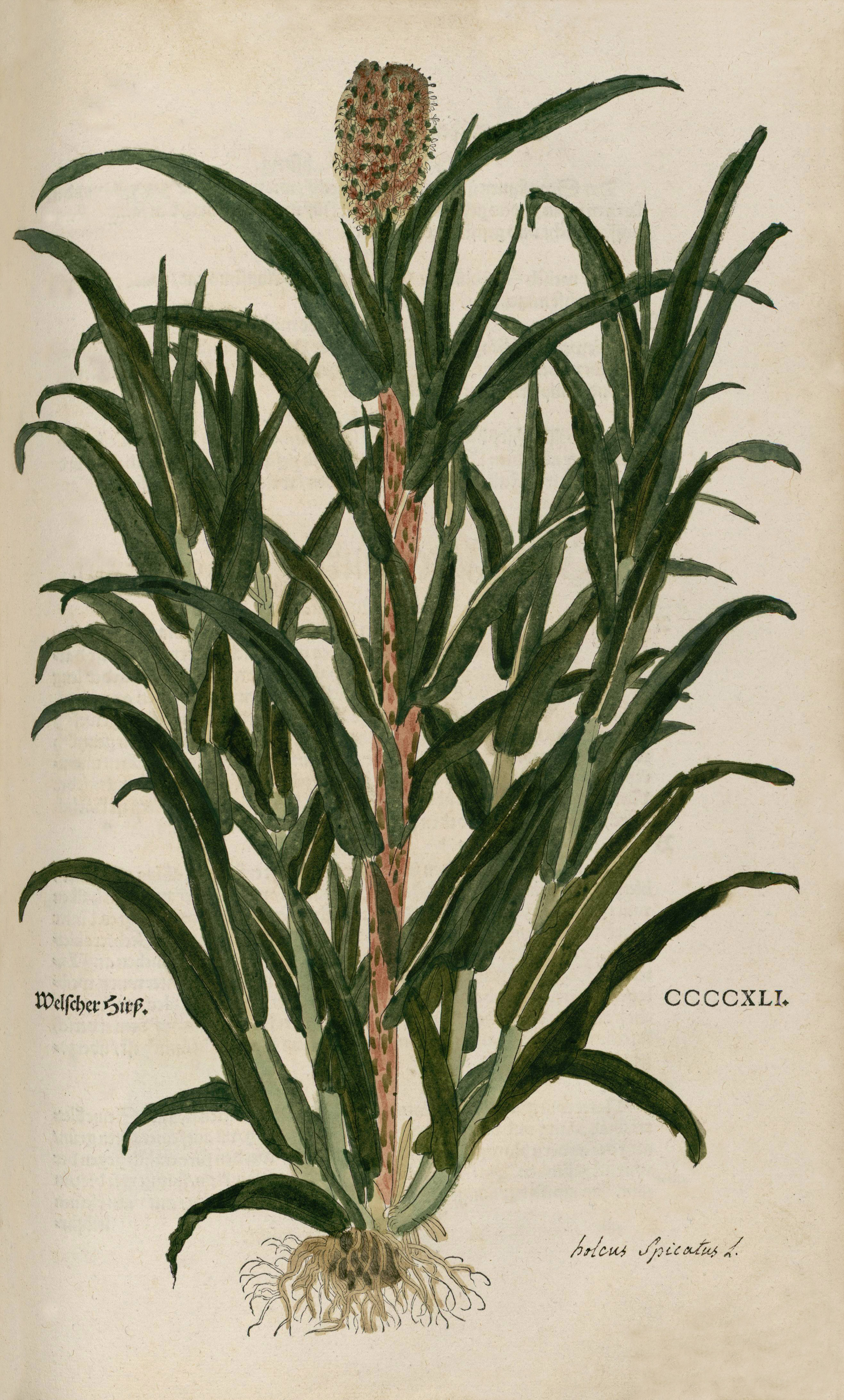 Welscher Hirss - Sorghum bicolor, image 760.